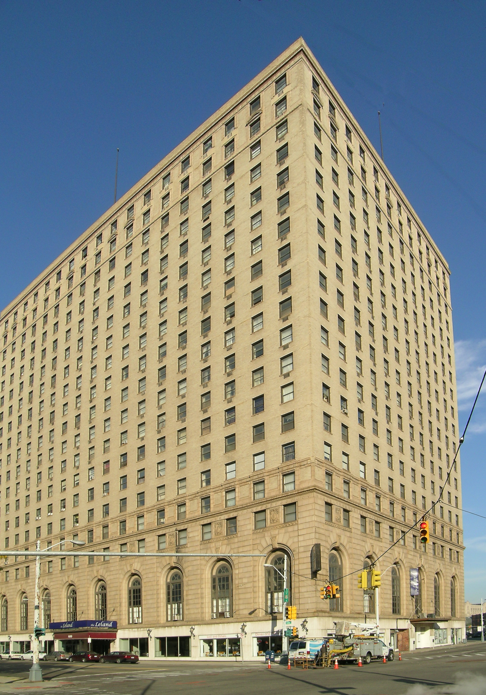 Detroit-Leland Hotel Detroit MI